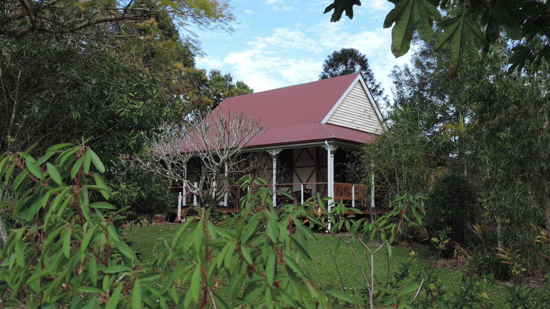 Koongalba